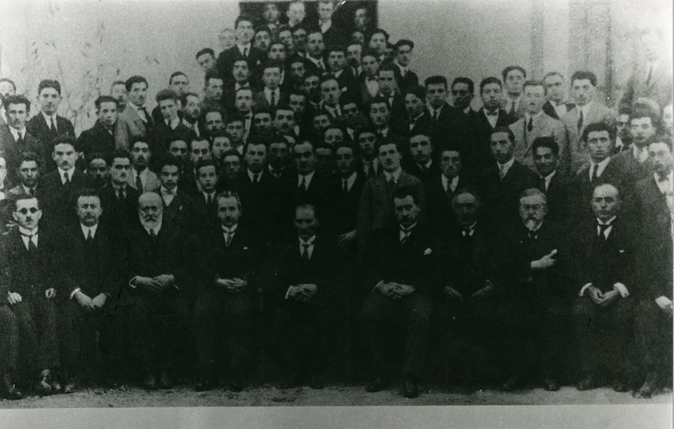 Opening day of Ankara University School of Law